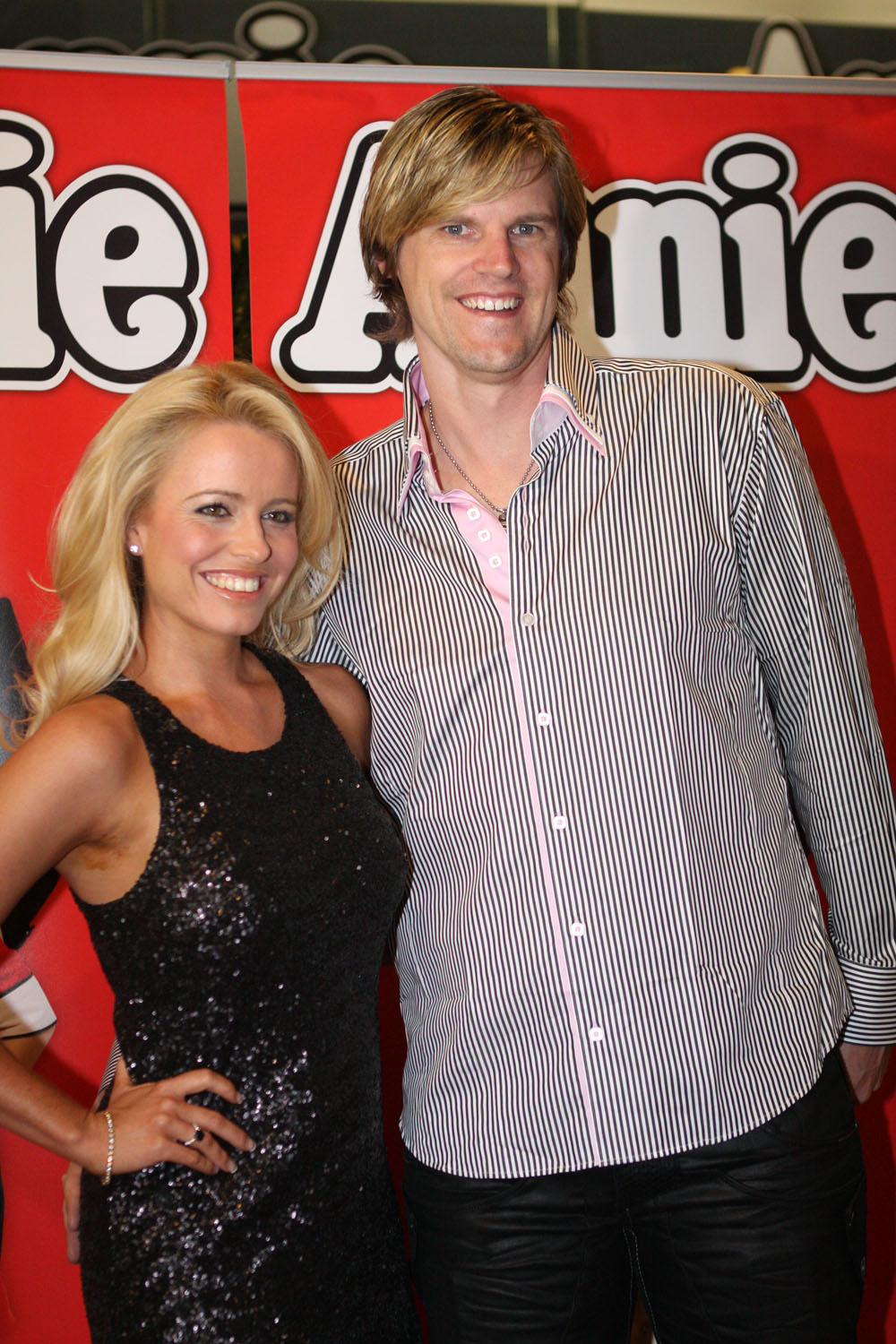 Hayley and Nathan Bracken